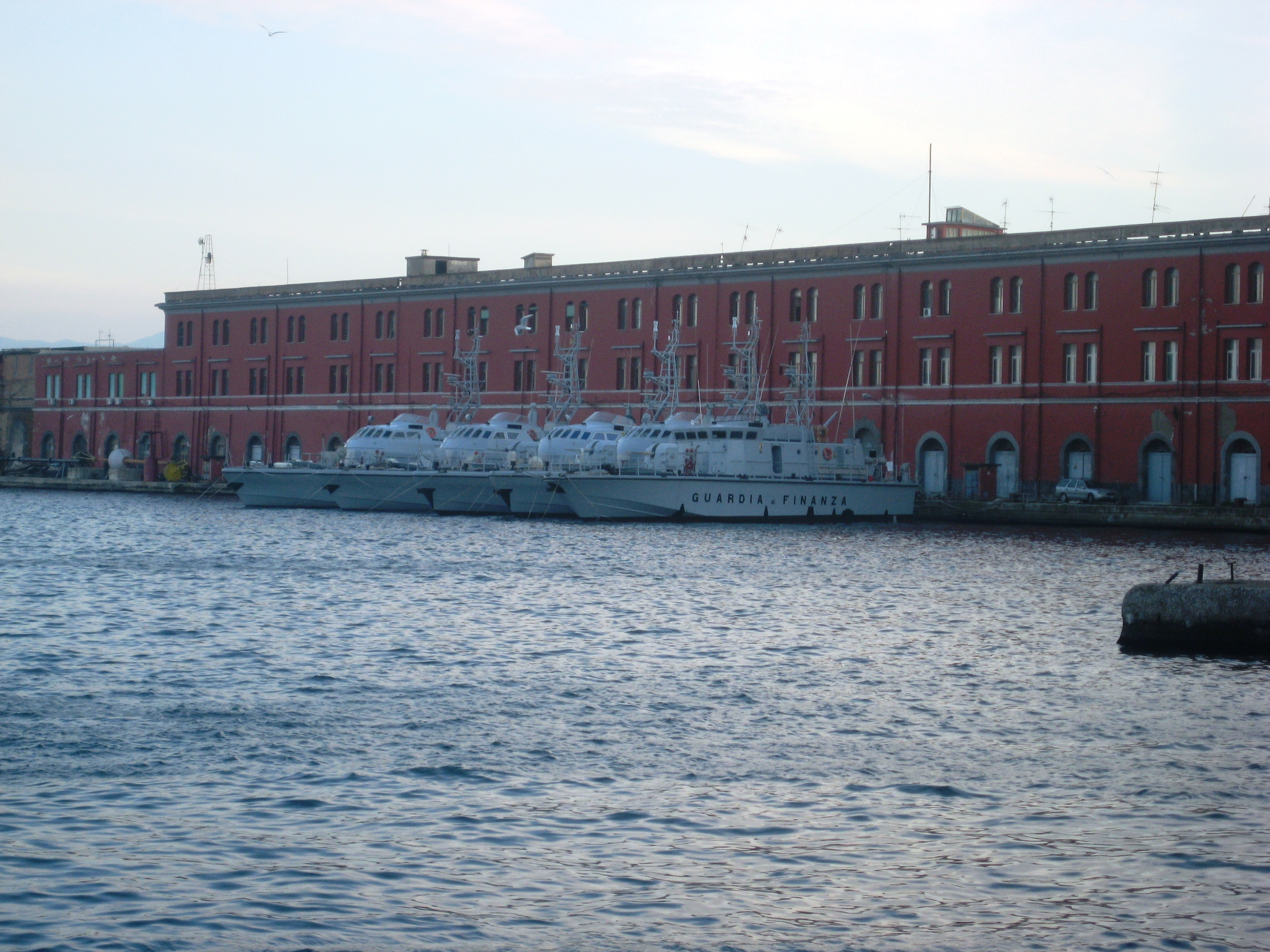 Italian Guardia di Finanza patrol crafts at Naples port.